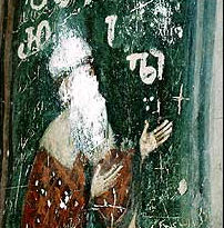 the damaged fresco of Shota Rustaveli in 2004, at Holy Cross Monastery in Jerusalem